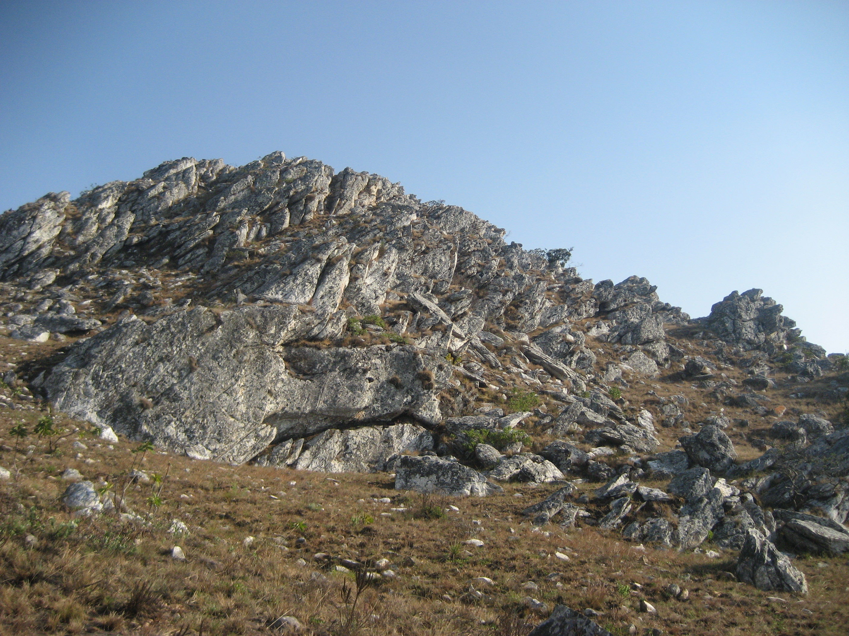 Quartz dominates in this landscape. The northern part of the Chimanimani Mountains at the Mozambique side of the border.